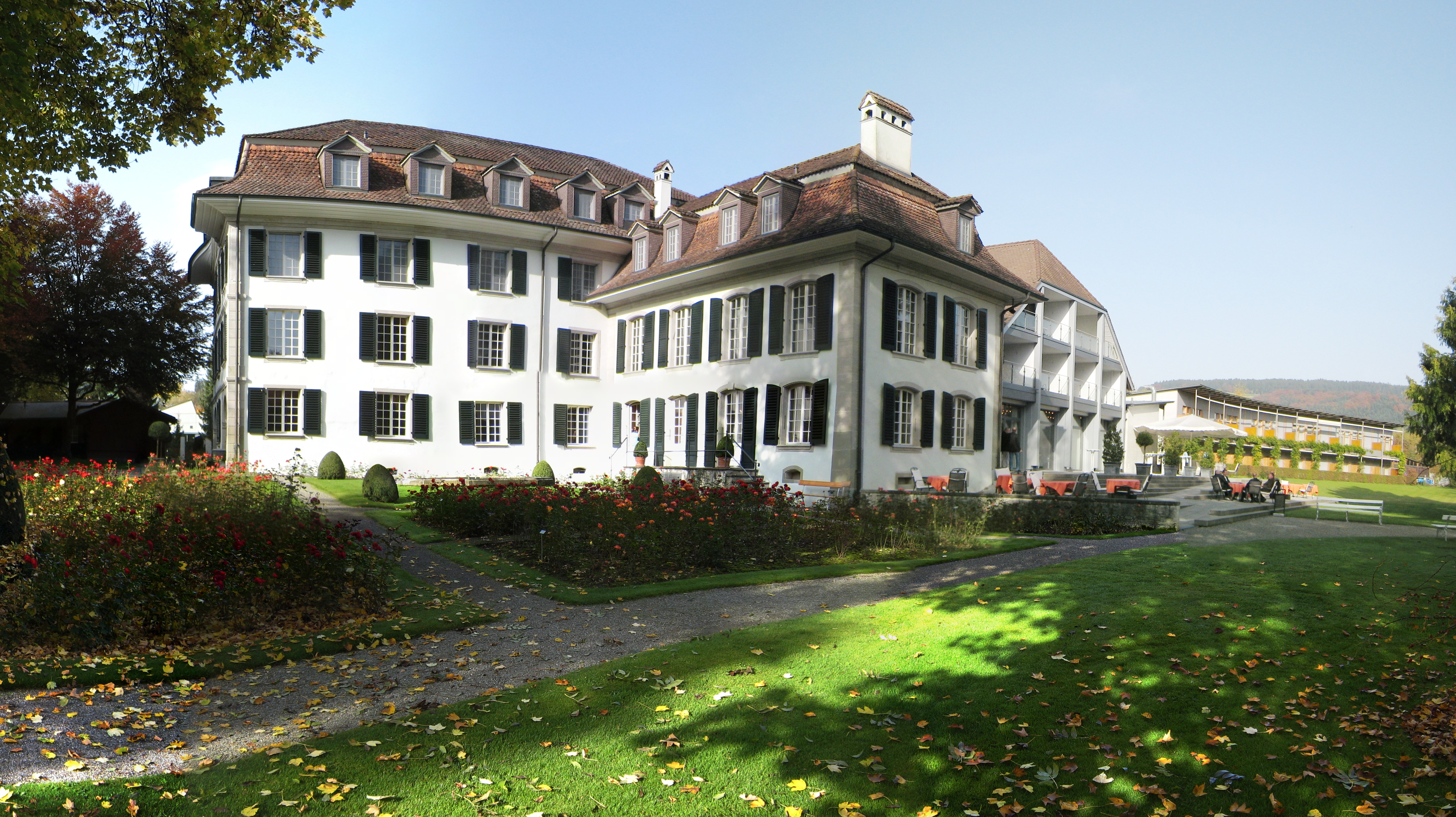 Parkhotel Schloss Hünigen, Konolfingen, Switzerland.